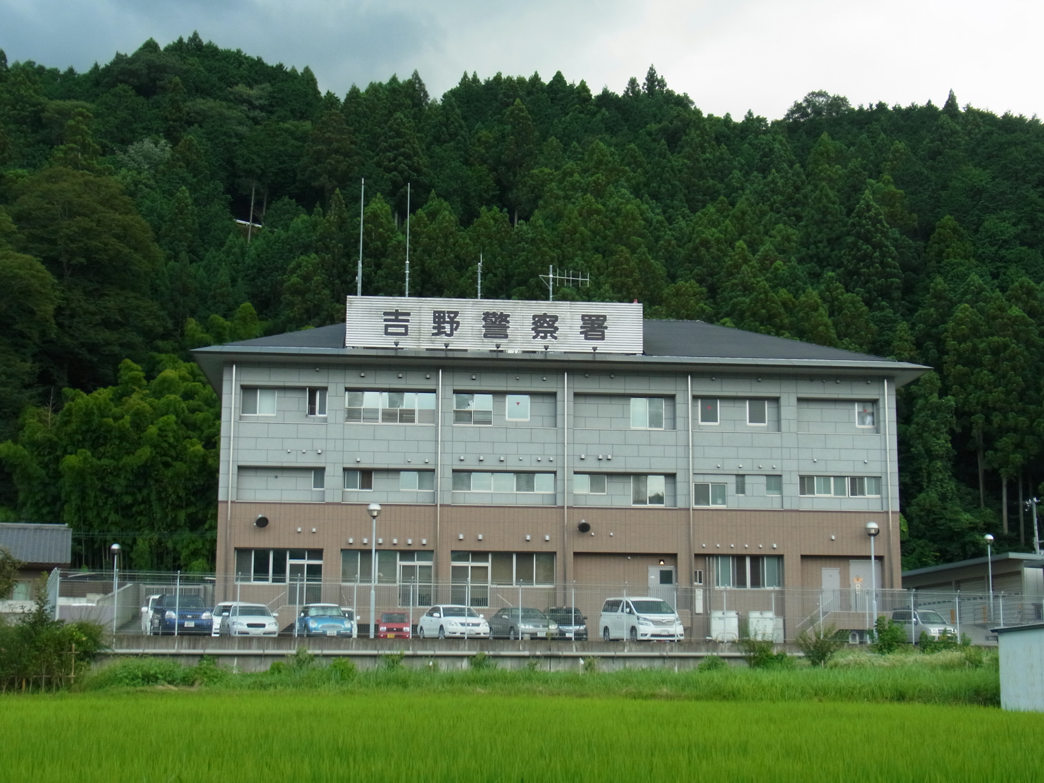 吉野警察署 Yoshino police station 2012.8.06